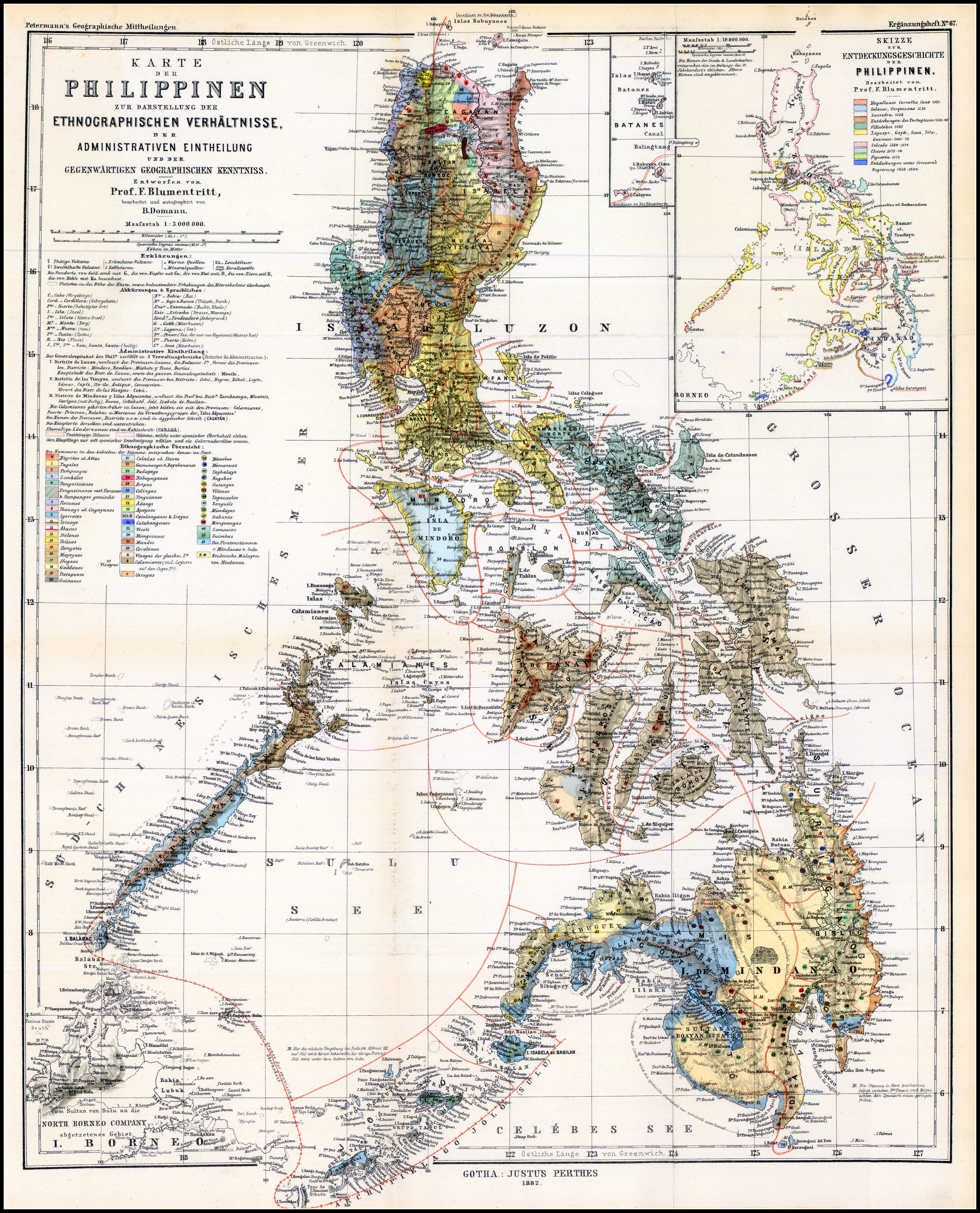 Karte der Philippinen,zur Darstellung der ethnographischen Verhältnisse,der administrativen Eintheilung. Entworfen von Prof. Ferdinand Blumentritt, bearbeitet und autographirt von B. Domann.